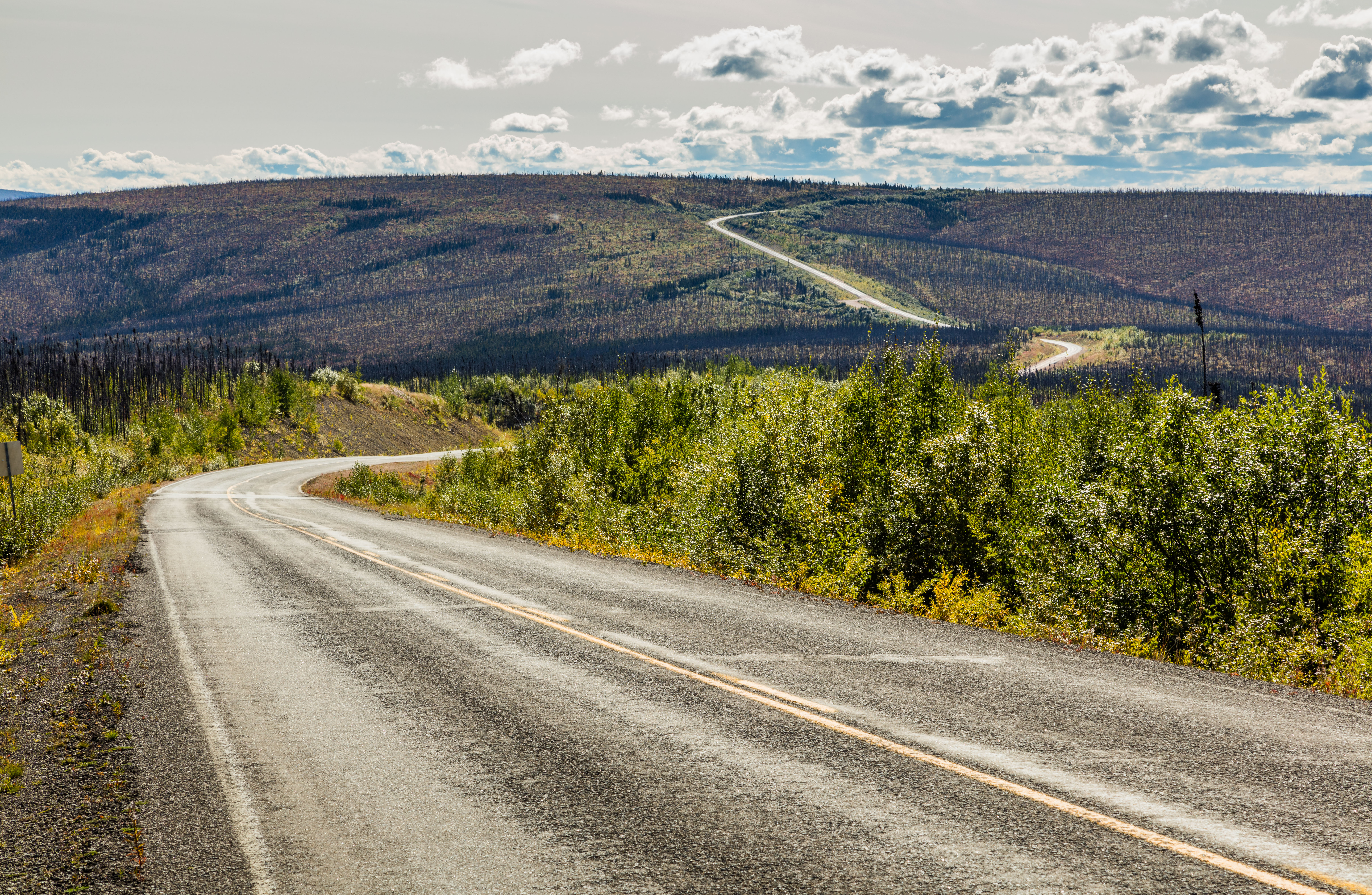 Taylor Highway, Alaska, United States